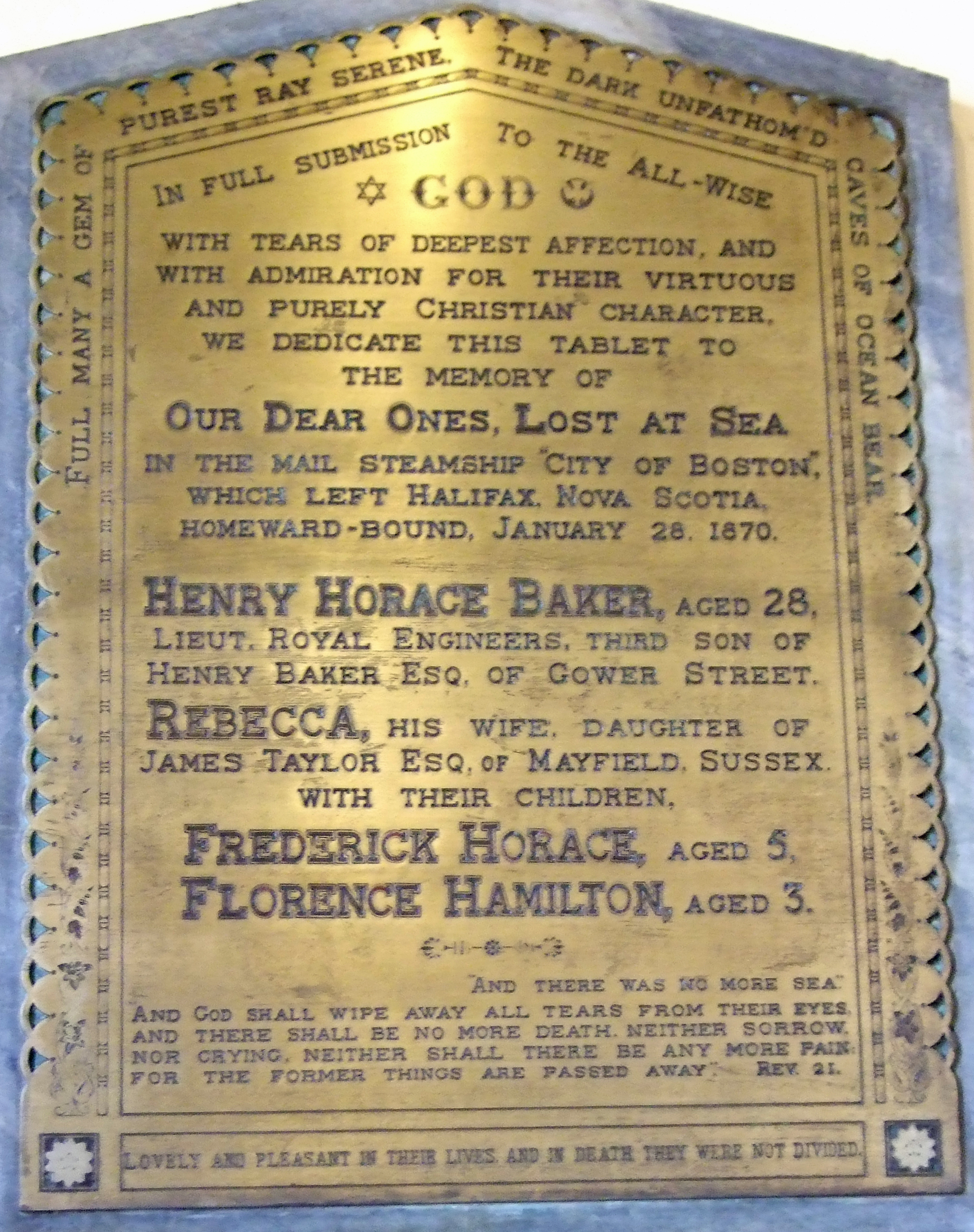 Memorial in St Pancras Parish Church London to victims of loss of SS City of Boston 1870